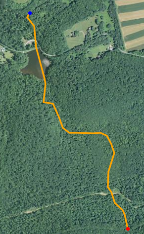 Satellite map of Davis Run. The red dot is the stream's source and blue dot is its mouth. Data available from U.S. Geological Survey, National Geospatial Program.